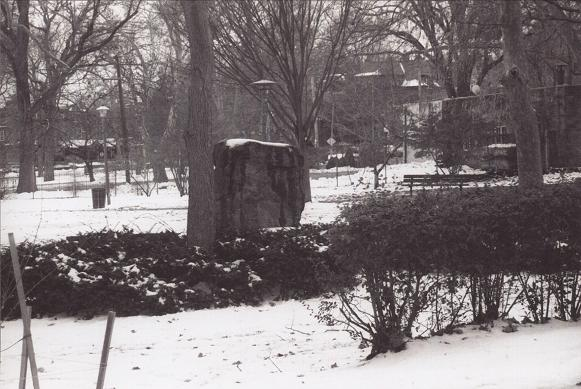 Gettysburg Stone memorial of the American Civil War — in Clark Park, Philadelphia. From Satterlee U.S.A. General Hospital site (1862 to 1865), whose lower grounds survive as Clark Park.